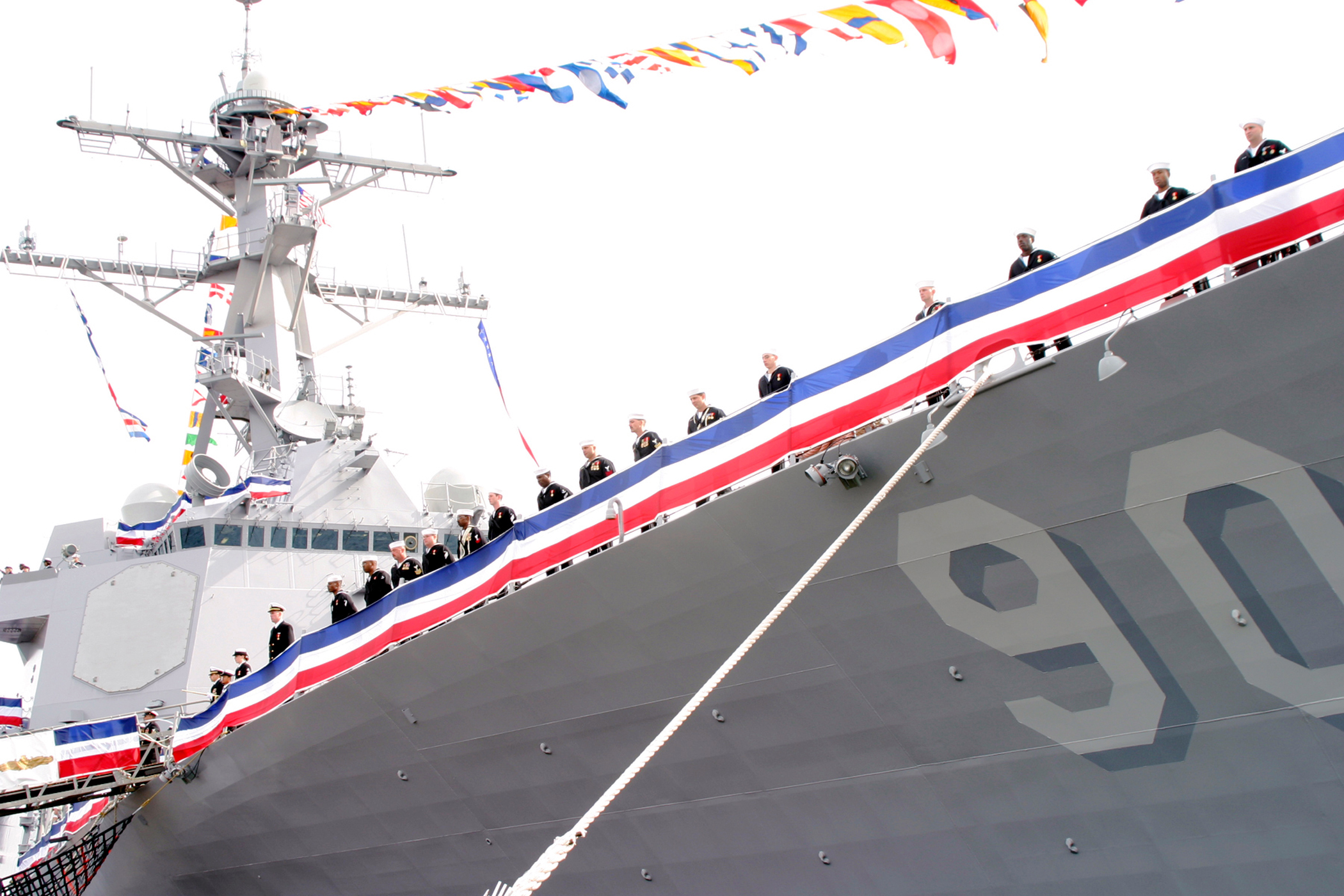 Naval Station Newport, R.I. (Oct. 18, 2003) Crewmembers man the rails for the first time aboard USS Chafee (DDG 90) after the ship was 'brought to life' during the commissioning ceremony. Chafee is named after the late Senator John H. Chafee, former Secretary of the Navy and decorated veteran of the Marine Corp. The ship is the Navy’s fourteenth Arleigh Burke-class destroyer. U.S. Navy photo by Journalist 2nd Class Mark O’Donald. (RELEASED)